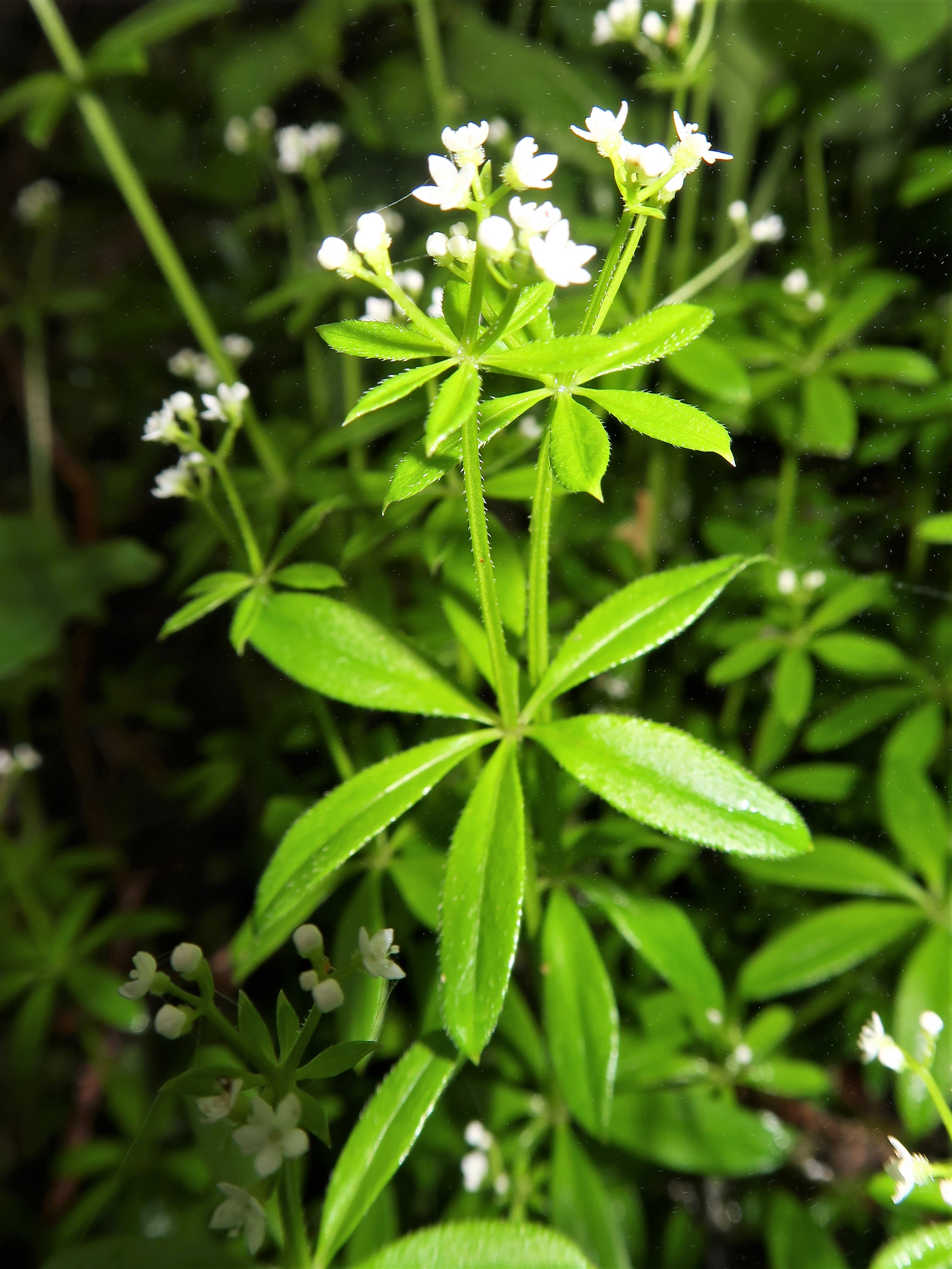 Galium trifloriforme , Aizu area, Fukushima pref., Japan